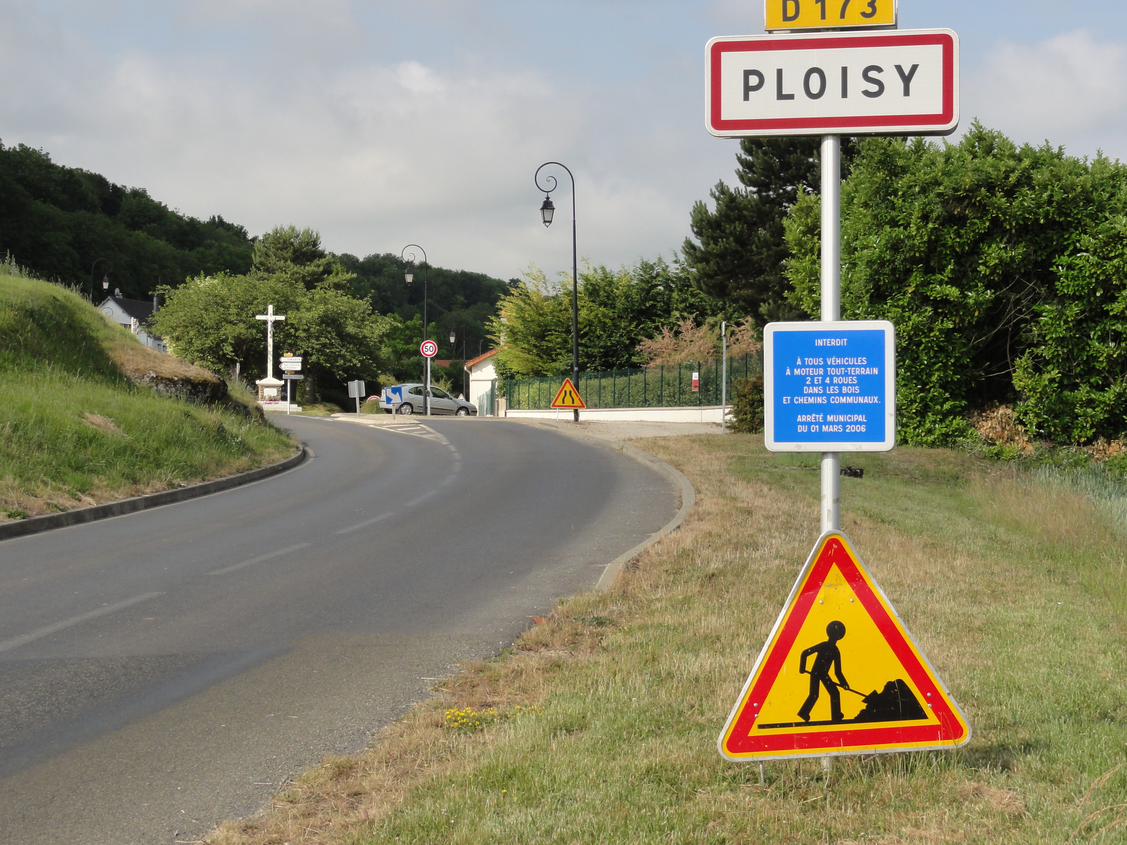 Ploisy (Aisne) city limit sign